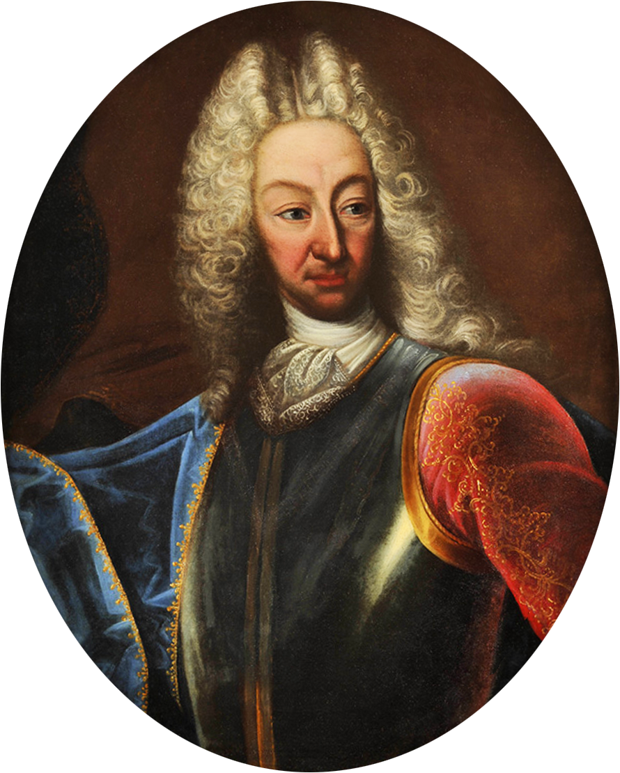 Portrait of Victor Amadeus II of Sardinia (1666-1732)